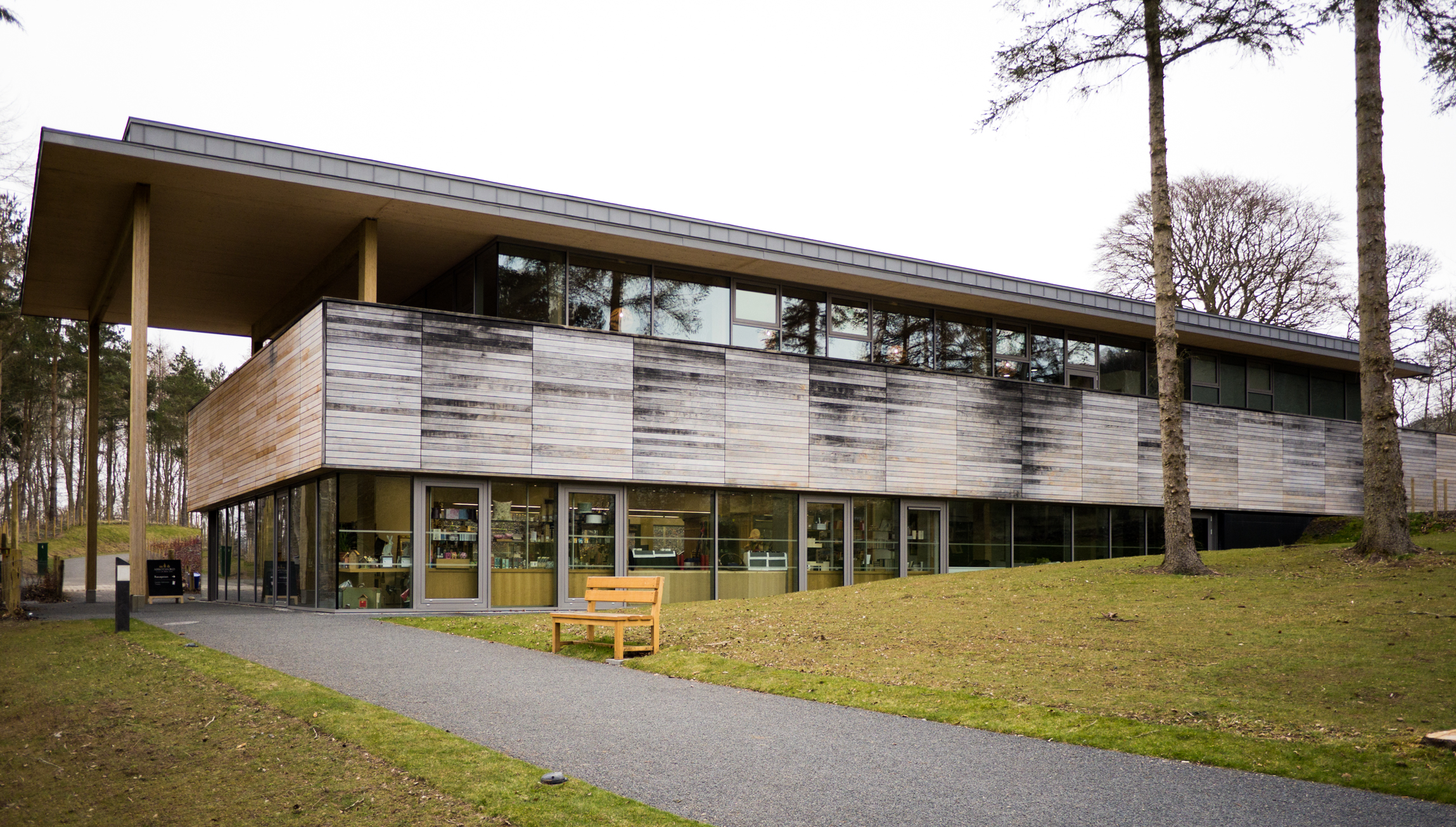 Photo of the Visitors Centre at Abbotsford House